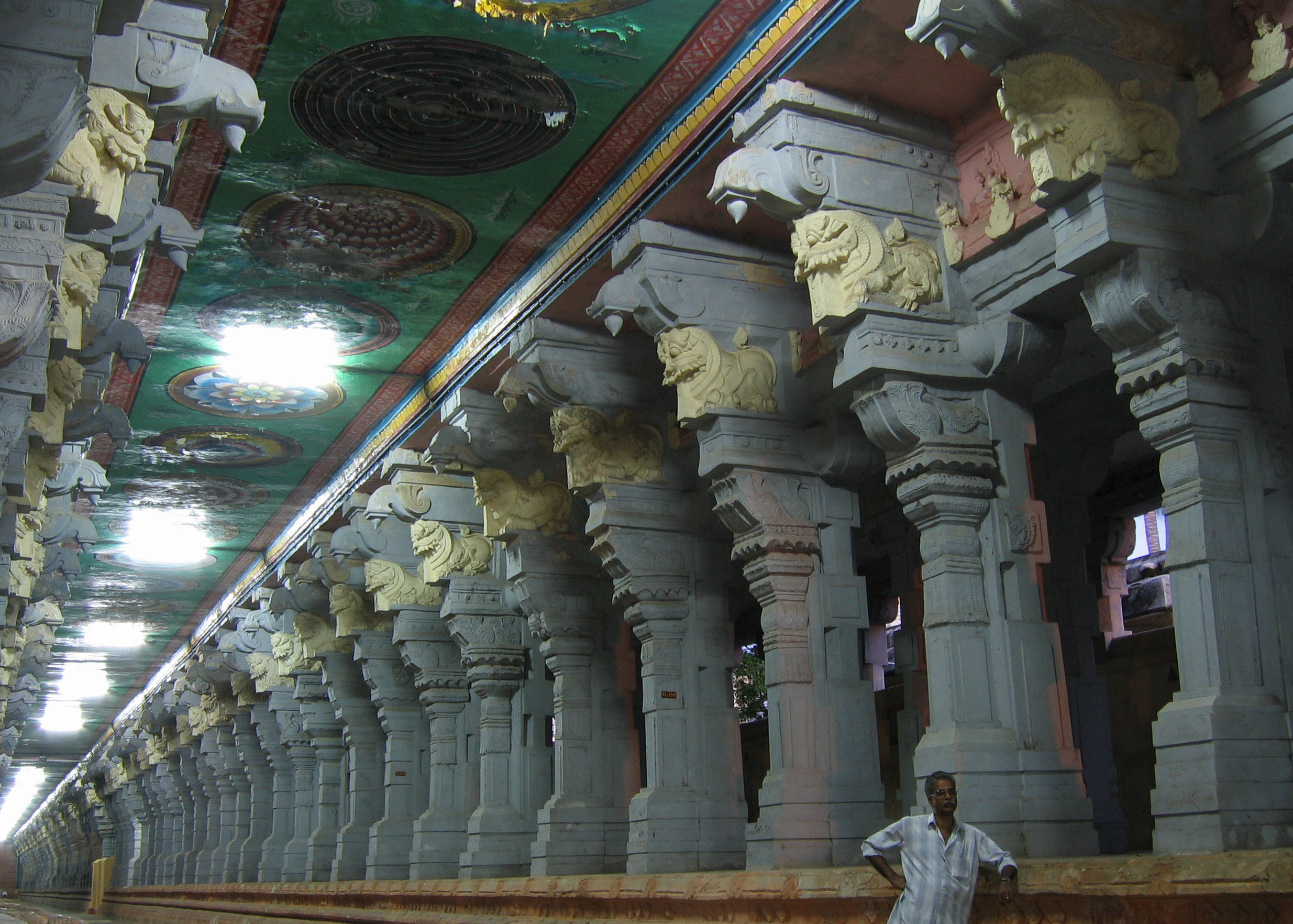 Rameswaram temple